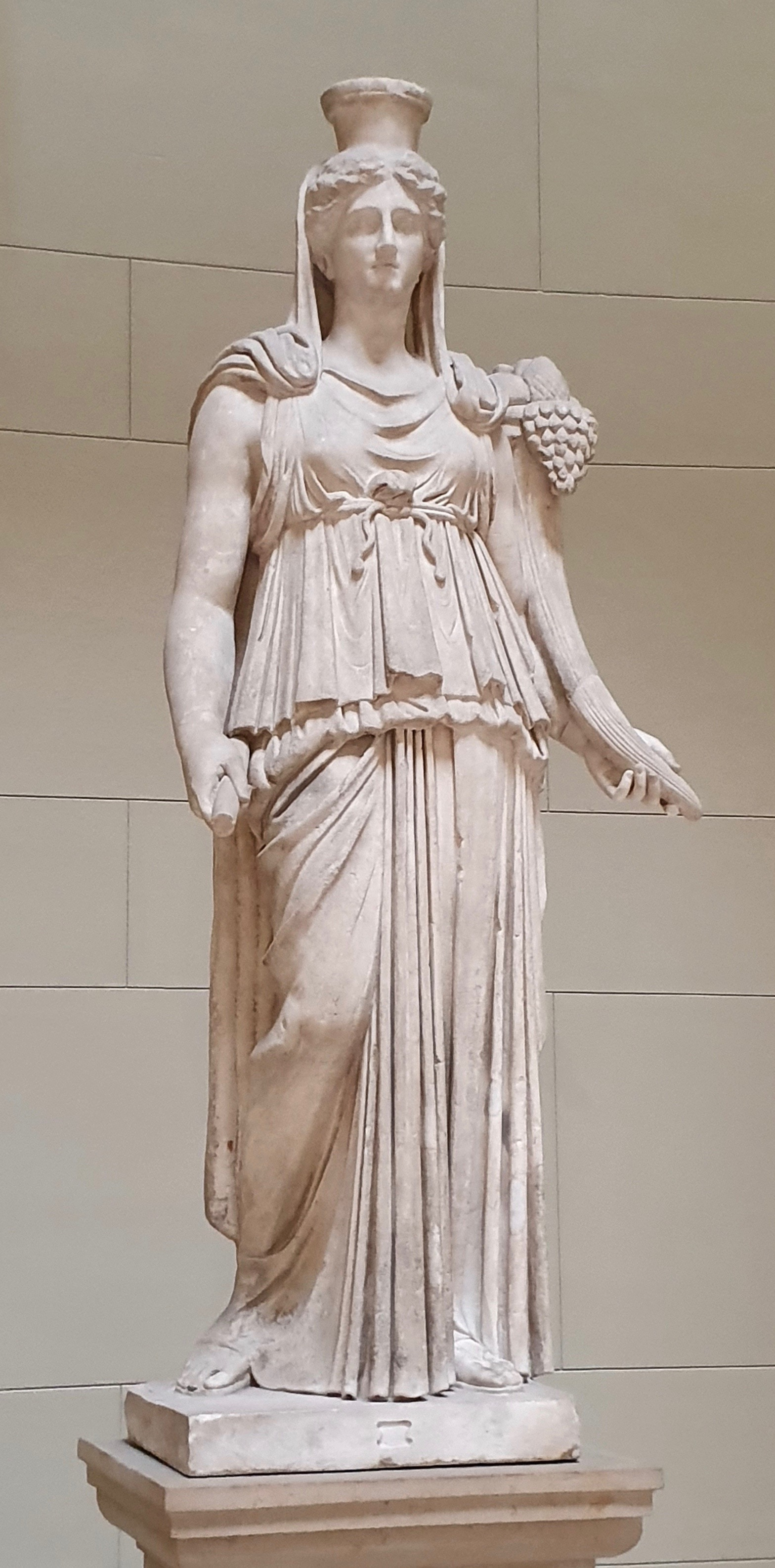 Statue of Fortuna at Rotunda of Altes Museum